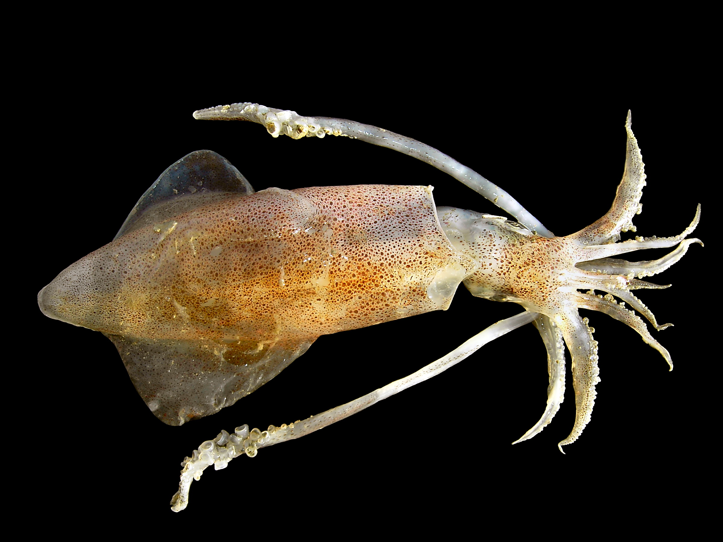 Common squid from the Belgian continental shelf. Picture taken in the lab on board of the RV Belgica, of a live specimen to preserve colour and structure of chromophores. Mantle: length= 138 mm, width= 39 mm.